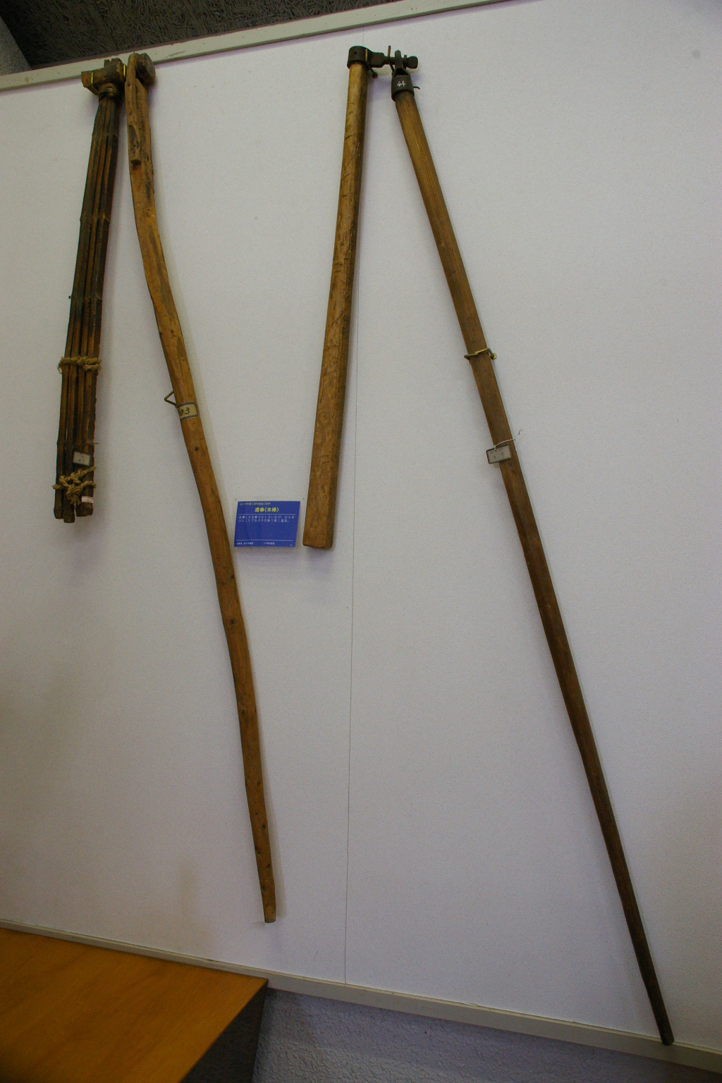 Threshing flails displayed at the Obira Town Local History Museum, Hokkaido, Japan